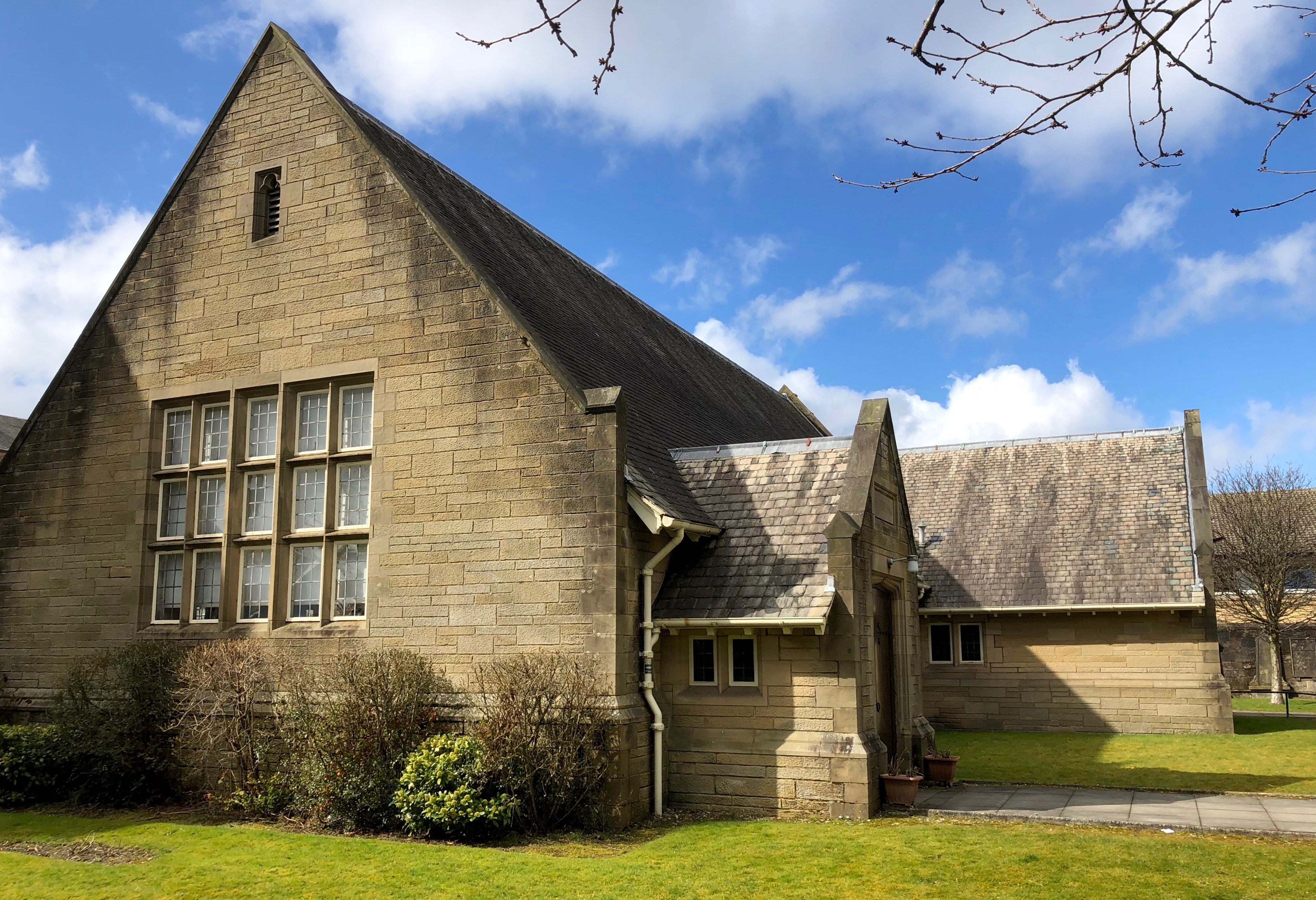 The Pirrie Hall to the south of the Old West Kirk in Greenock, seen from the Campbell Street entrance looking west. Opened in 1925, and was used as a temporary church while the old kirk was taken down at its old site, and reconstructed adjacent to the Pirrie Hall.